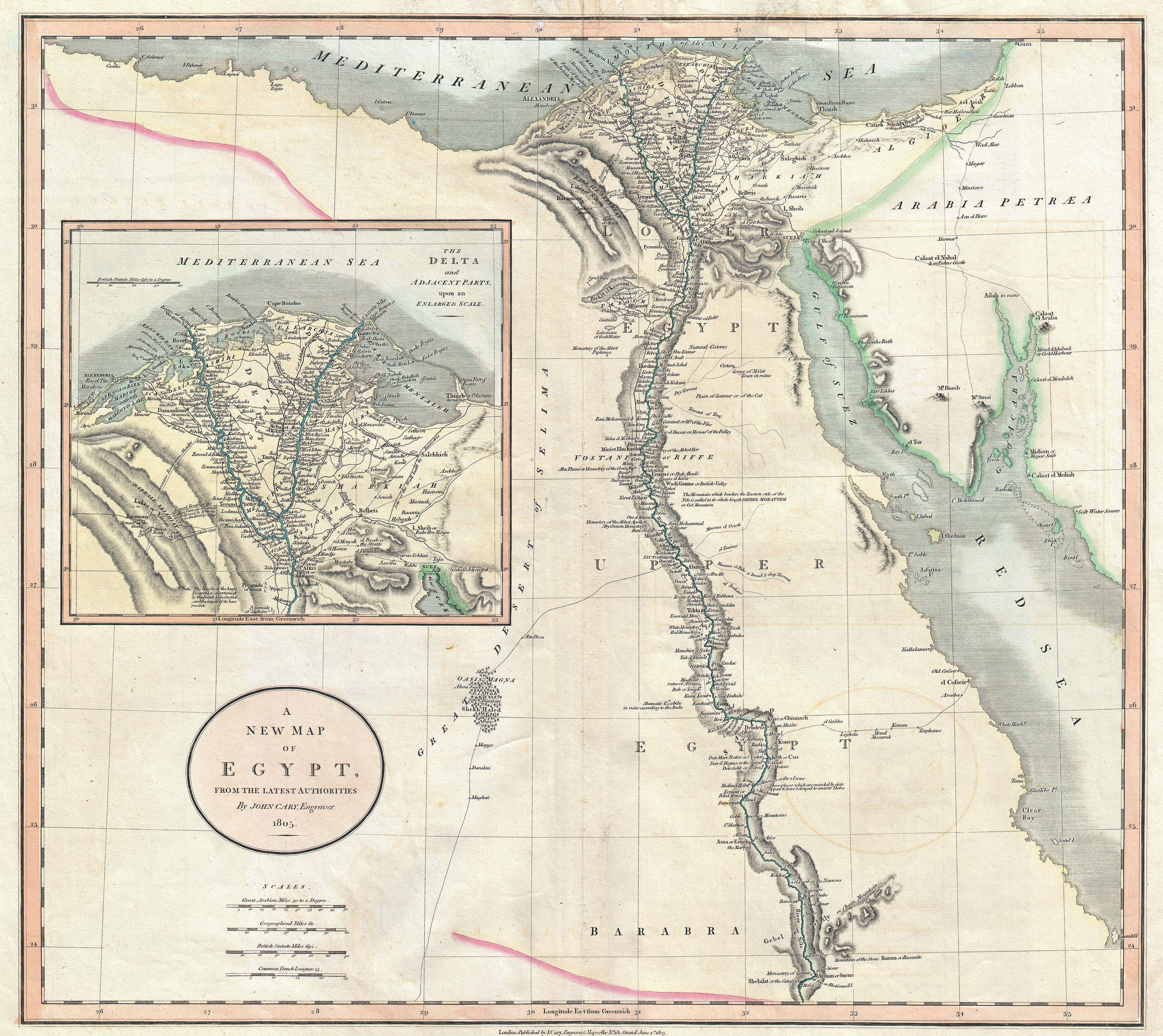 An exceptionally beautiful example of John Cary’s important 1805 Map of the Egypt. Covers Egypt in extraordinary detail focusing on the course of the Nile River Valley from the Delta region south to Aswan. Notes the sites of numerous riverside villages and cities as well as important ancient Egyptian ruins, Coptic and Abyssinian Monasteries, and important caravan routes between important desert oases. Also notes the locations of both Mt. Horeb and Mount Sinai, in the Sinai Peninsula. The left hand side of the map is dominated by a large inset of the Nile Delta region. This wonderful inset offers details on ancient ruins and European explorations in the region as well as noting numerous delta cities, villages, and trade routes. All in all, one of the most interesting and attractive atlas maps of Egypt to appear in first years of the 19th century. Prepared in 1805 by John Cary for issue in his magnificent 1808 New Universal Atlas .